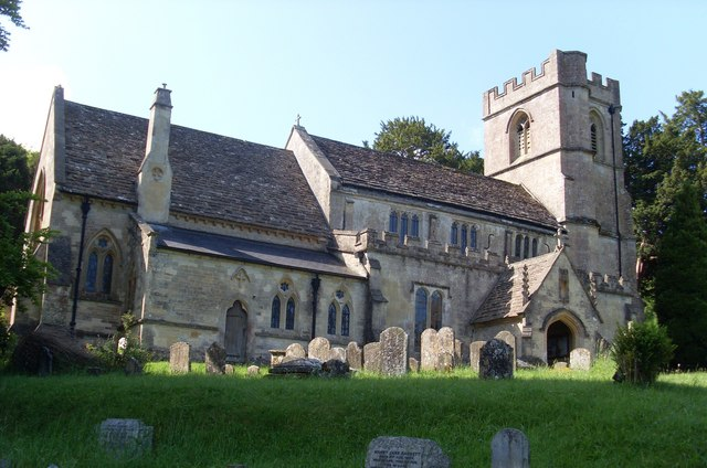 St Swithin's parish church, Compton Bassett, Wiltshire, seen from the northeast